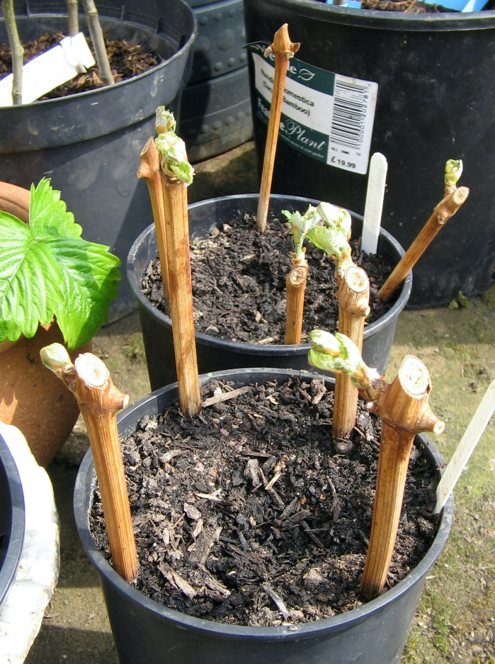 Regent and Rondo grape vine cuttings.